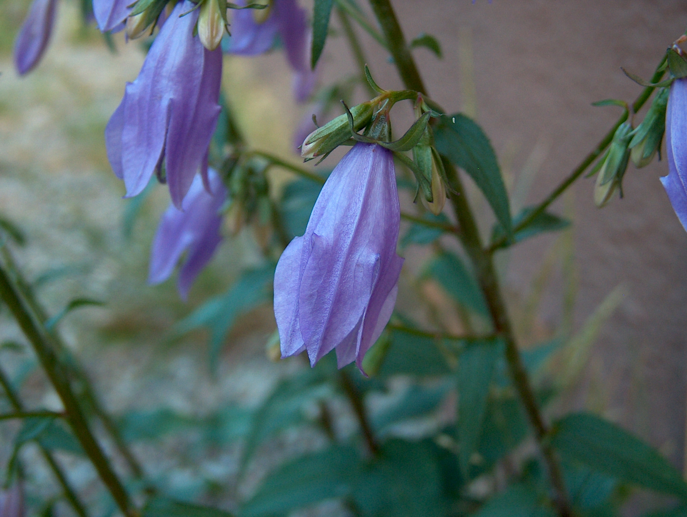 Campanula rapunculoides, Creeping Bellflower - Flower - Kerava, Finland